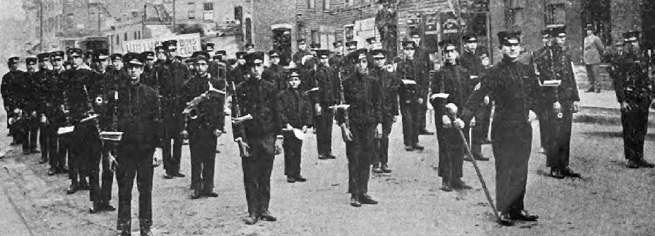 Photo of the Boys Band at Hull House in 1929.